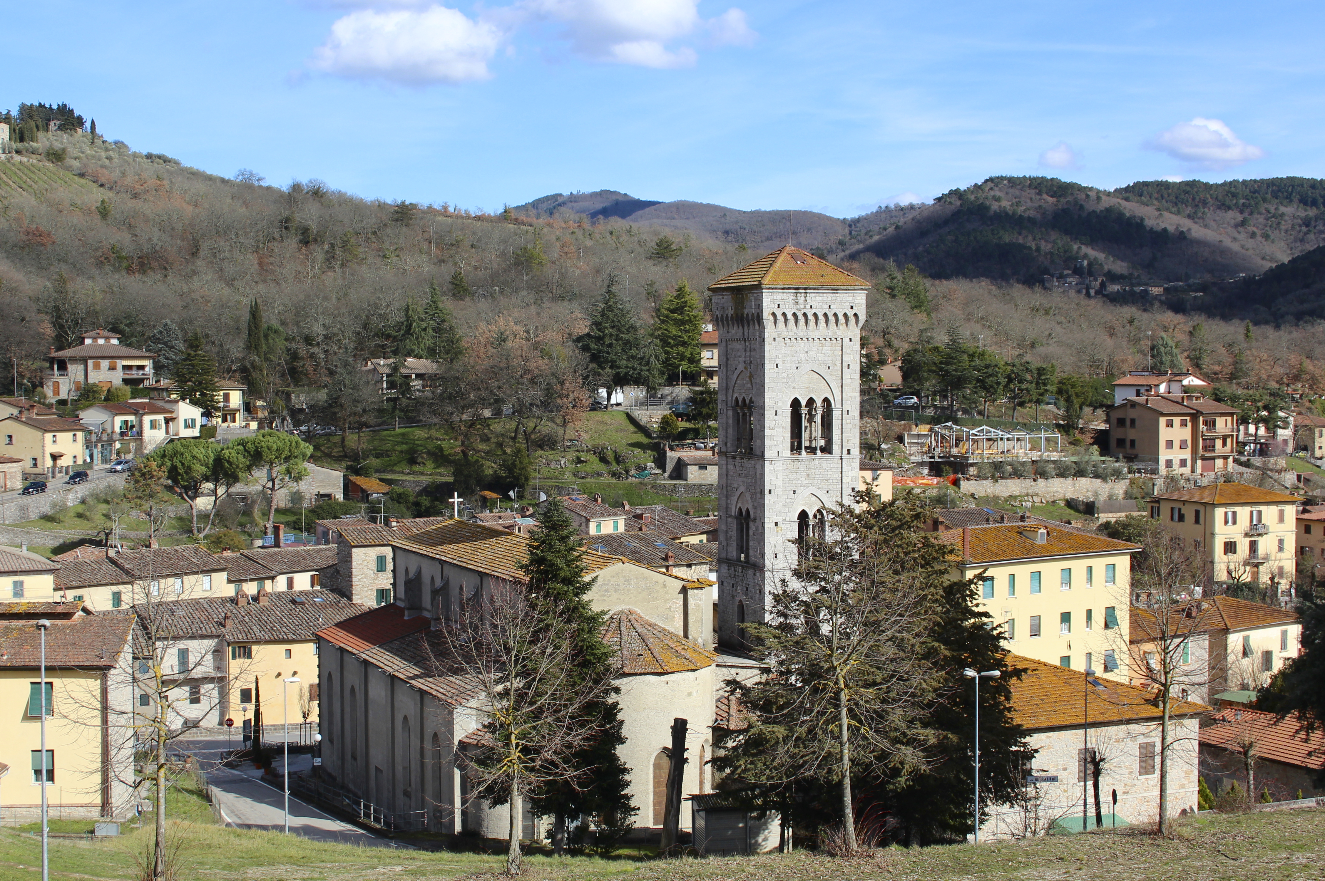 Panorama of Gaiole in Chianti, Province of Siena, Tuscany, Italy